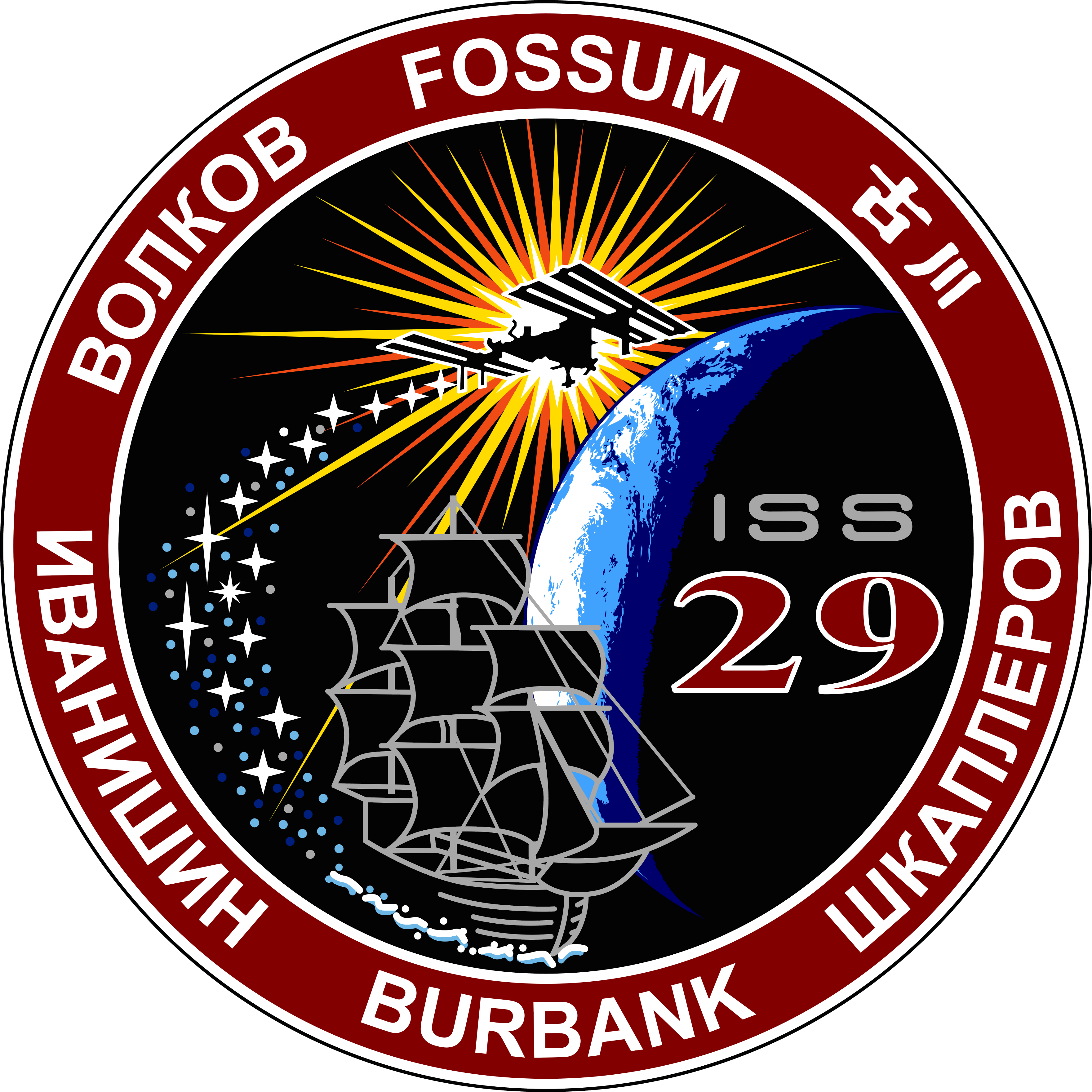 On the Expedition 29 patch, the International Space Station (ISS) is shown following the path of the historic 18th century explorer, Captain James Cook, and his ship, Endeavour. During Cook's three main voyages, he explored and mapped major portions of the oceans and coastlines under the flight path of the ISS and added immeasurably to the body of knowledge of that time. As the ISS sails a stardust trail – following the spirit of Endeavour sailing toward the dark unknown and new discoveries – it enlightens Earth below. Through the centuries, the quest for new discoveries has been a significant element of the human character, inspiring us to endure hardships and separation to be part of a mission which is greater than any individual. A spokesman for the crew stated, "The crew of Expedition 29 is proud to continue the journey in this greatest of all human endeavors."